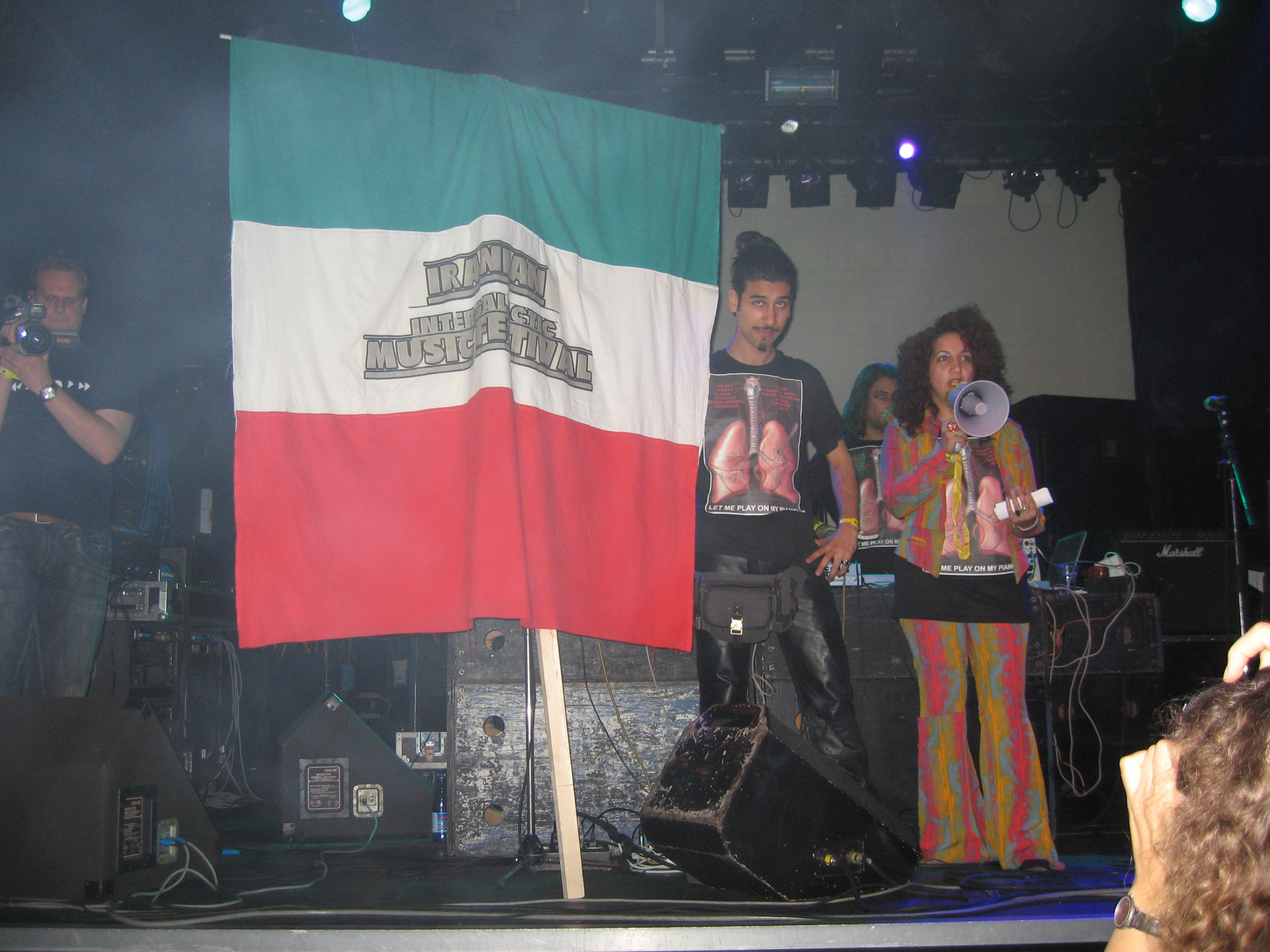 Sholeh and manny the organisers of the Iranian Intergalactic Music Festival, 22nd Oktober 2006, Zaandam, the Netherlands. Picture taken by Babak Amirkhani and provided for Wikicommons by Mani Parsa.